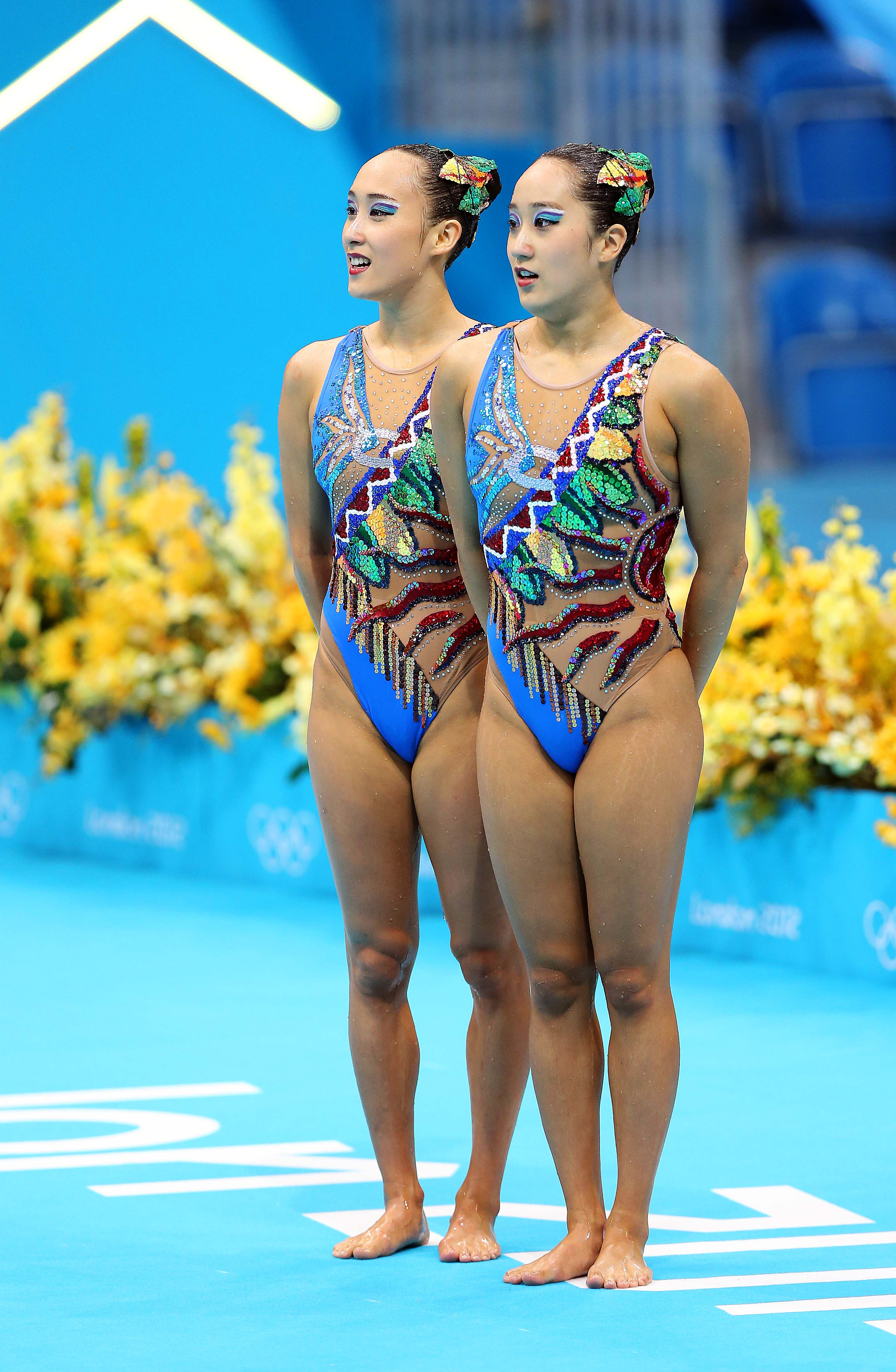 2012 London Olympic Games Korea Synchronised Swimming Team, Park Hyunha and Park Hyunsun. 2012.08.06. Photo by Korean Olympic Committee Ministry of Culture, Sports and Tourism Korean Culture and Information Service 2012 런던 올림픽 여자 싱크로나이즈 스위밍 박현선-박현아 자매 사진제공 - 대한체육회 문화체육관광부 해외문화홍보원